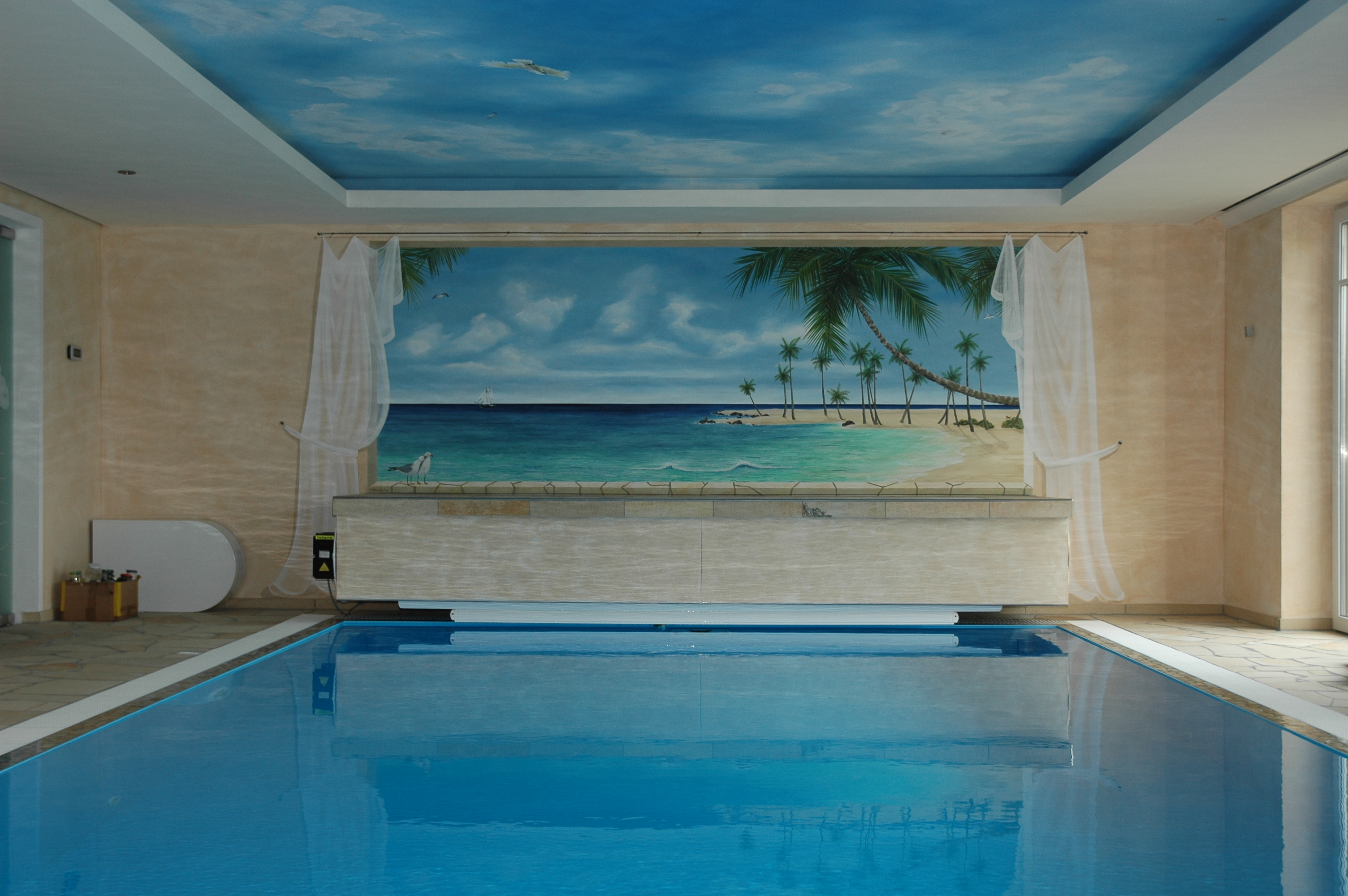 Trompe-l’œil-painting of Volker Wunderlich, germany